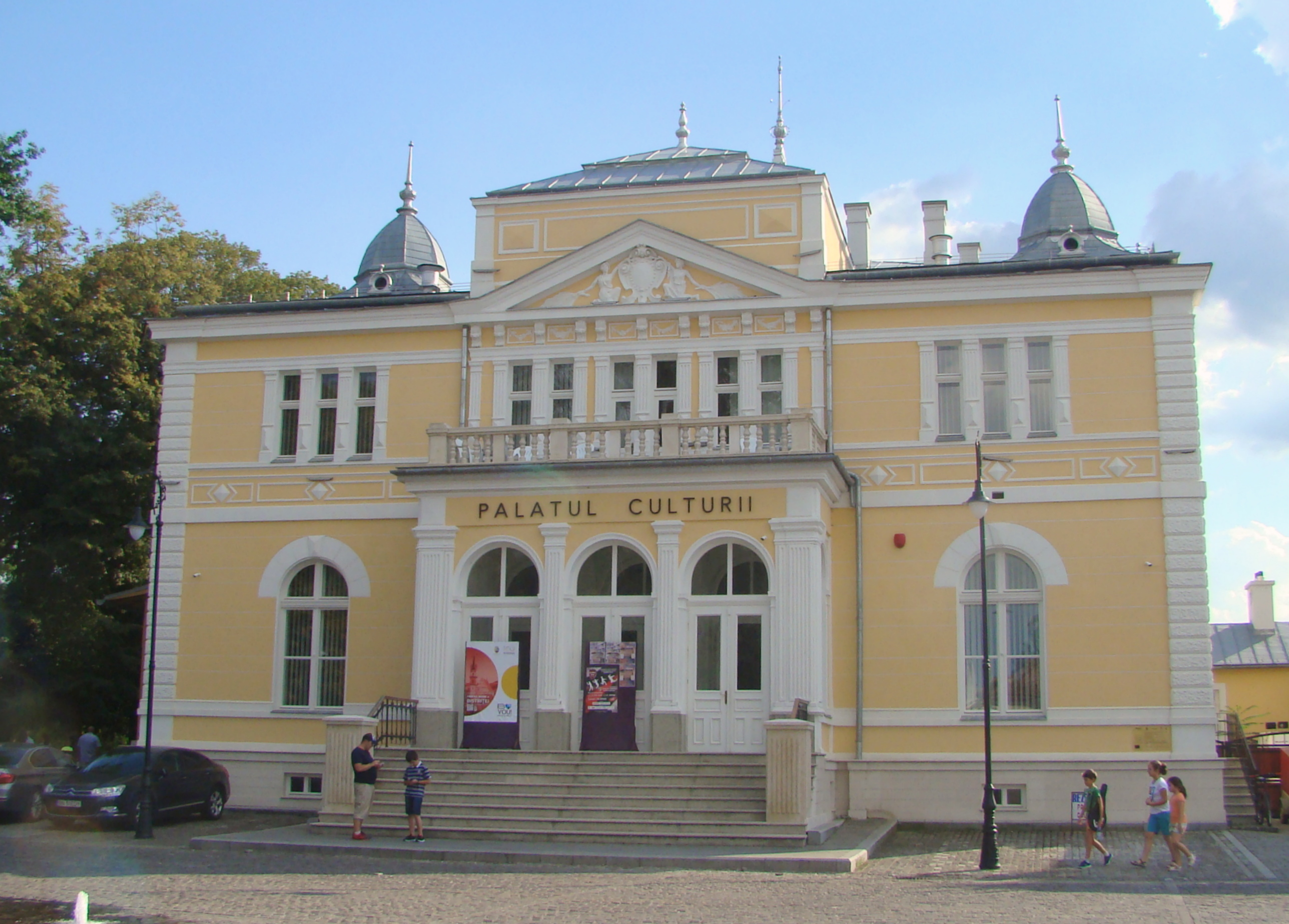 Culture Palace in Bistrița, Albert Berger street 10